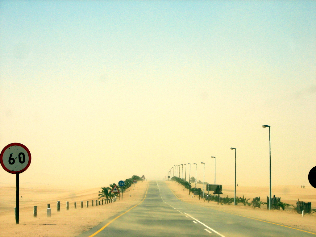 Road between Swakopmund and Walfish Bay, Namibia; sandstorm